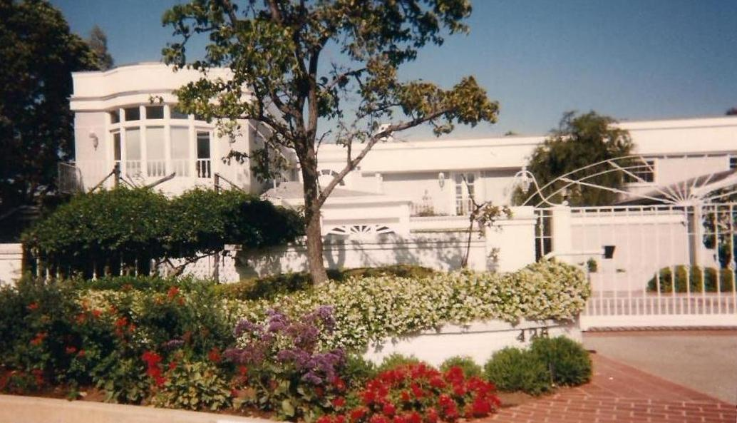 Former home of Joan Crawford in Brentwood section of Los Angeles.